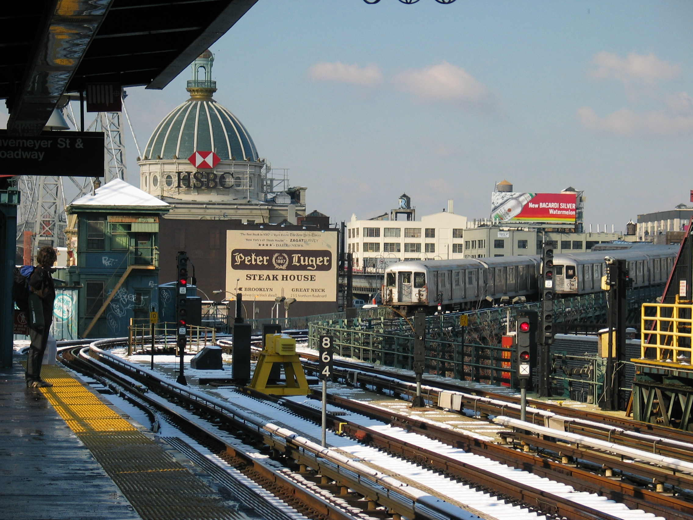 Trains entering and leaving Marcy Avenue station. Williamsburg Bridge and former Willamsburgh Savings Bank dome are visible in the background.